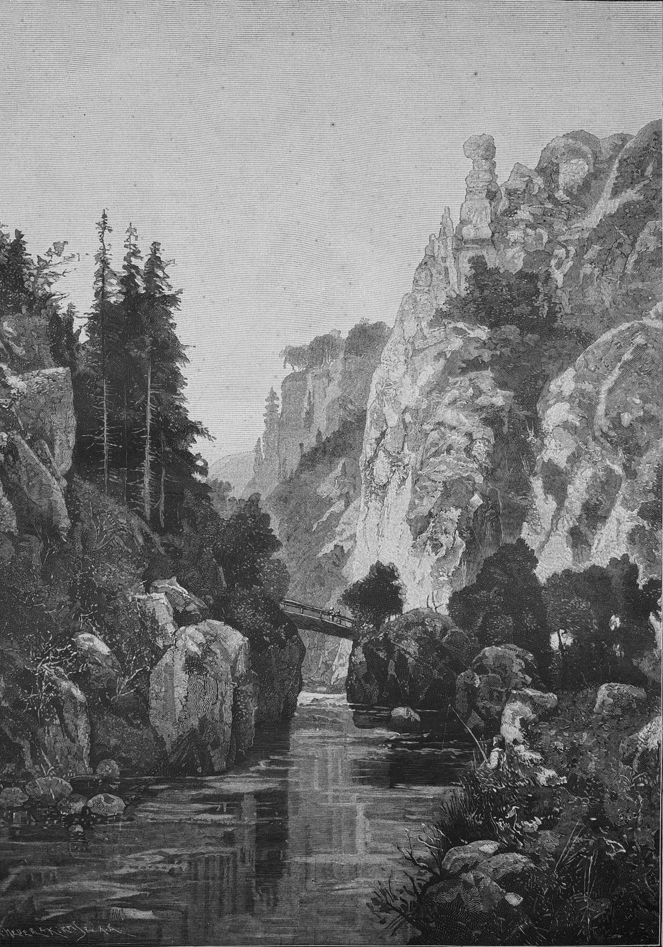 caption: "Bodekessel im Harz. Nach dem Oelgemälde von Hellmuth Rätzer."